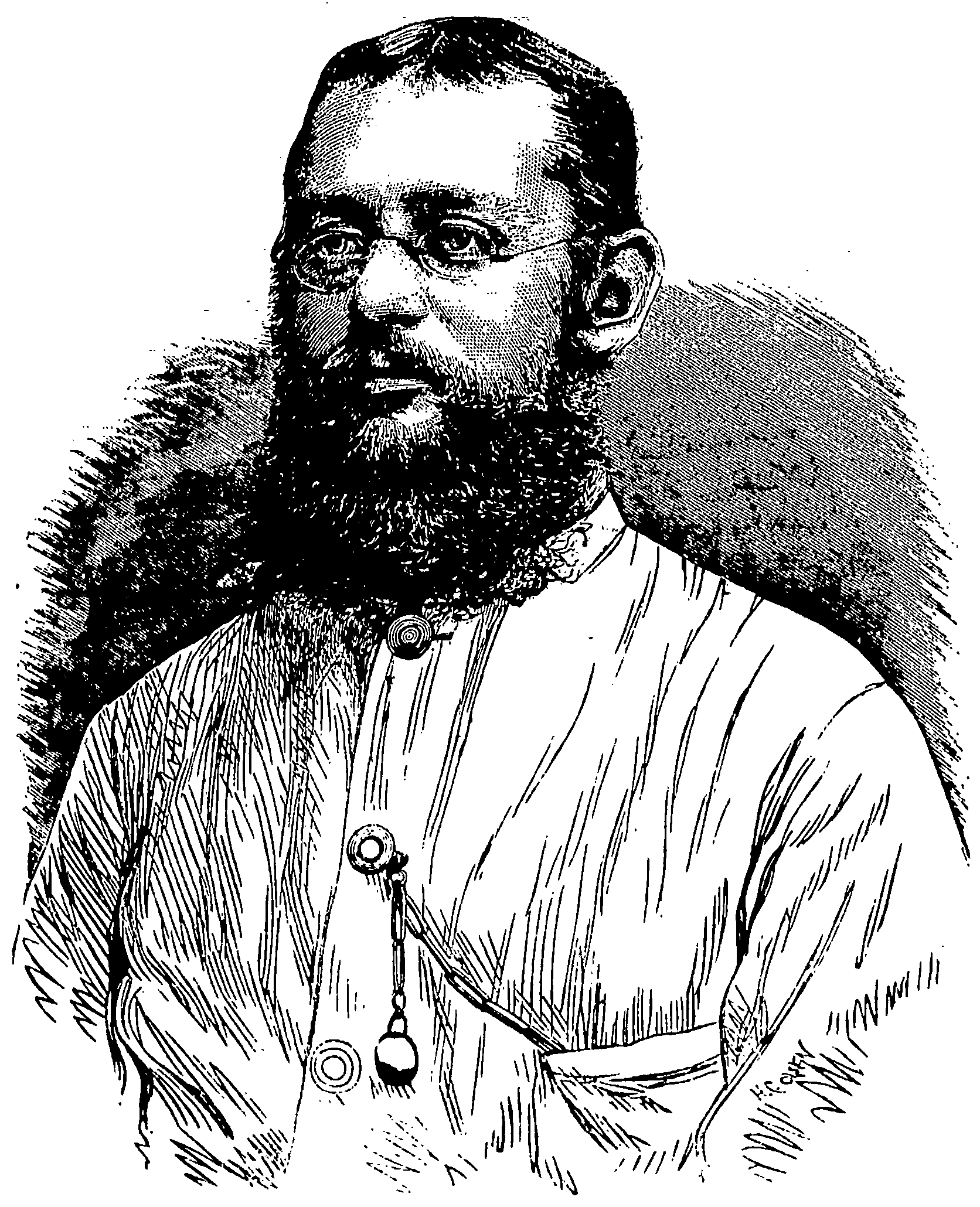 The Norwegian explorer Carl Bock.